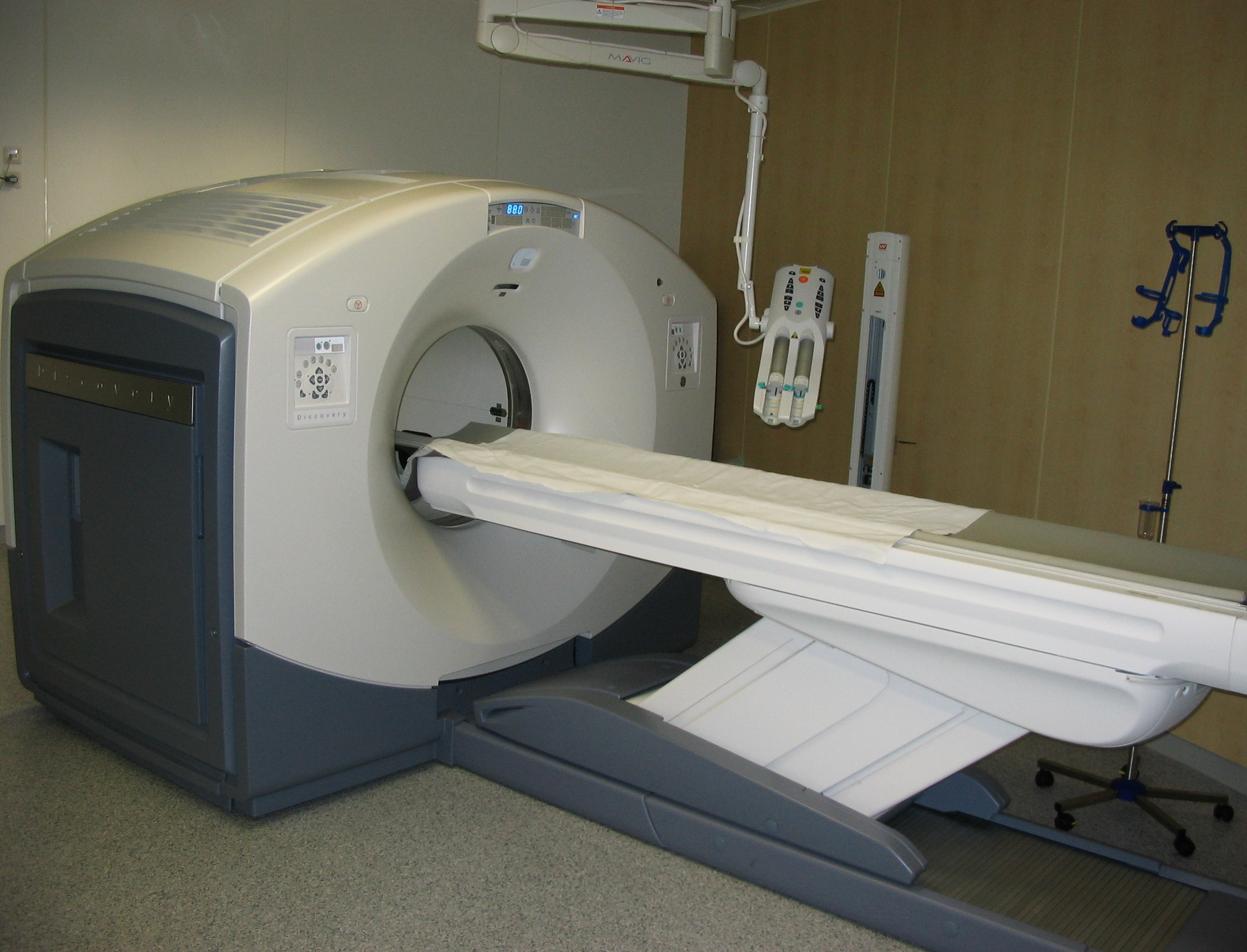 GE Discovery D600 PET/CT System, with 16 slice CT System, built in 2009; Gantry Diameter: 70cm